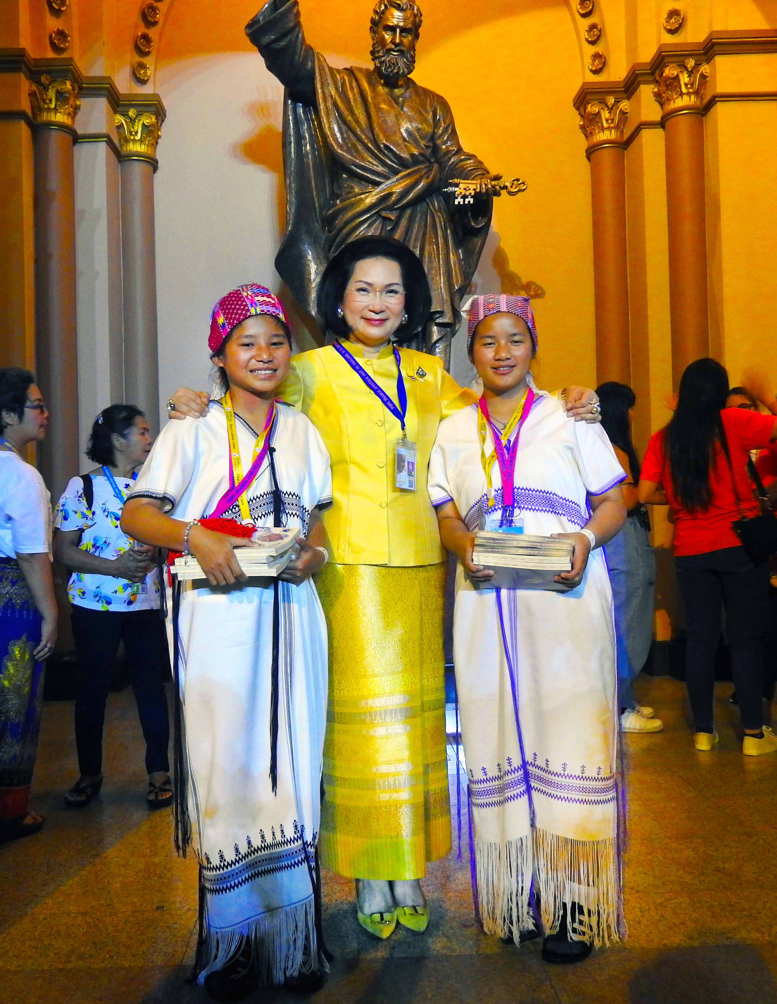 KhunyingPatama Leeswadtrakul at Assumption Cathedral for His Holiness Pope Francis celebrates Holy Mass